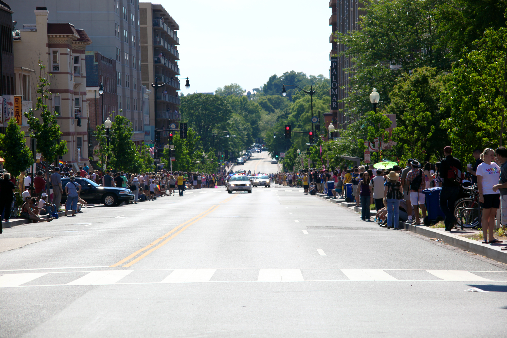 Looking west down P Street NW from Dupont Circle. The 2000 and 2100 blocks can be seen in the photograph. The P Street Bridge is just visible in the distance, between the trees. This image was captured just before the start of the 2012 Capital Pride gay and lesbian parade.